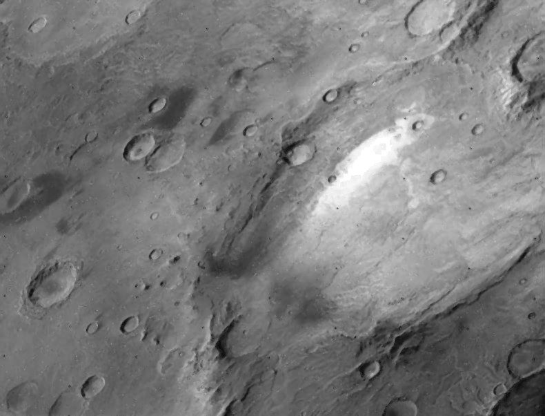 Copernicus crater (right) on Mars. Viking 1 image from camera A (088A35). Red filter was used for this image. Resolution is about 409 m/pixel. Emission Angle: 51.1 Incidence Angle: 73.3 Latitude: -47.9 Longitude: 195.6 Phase Angle: 106.3